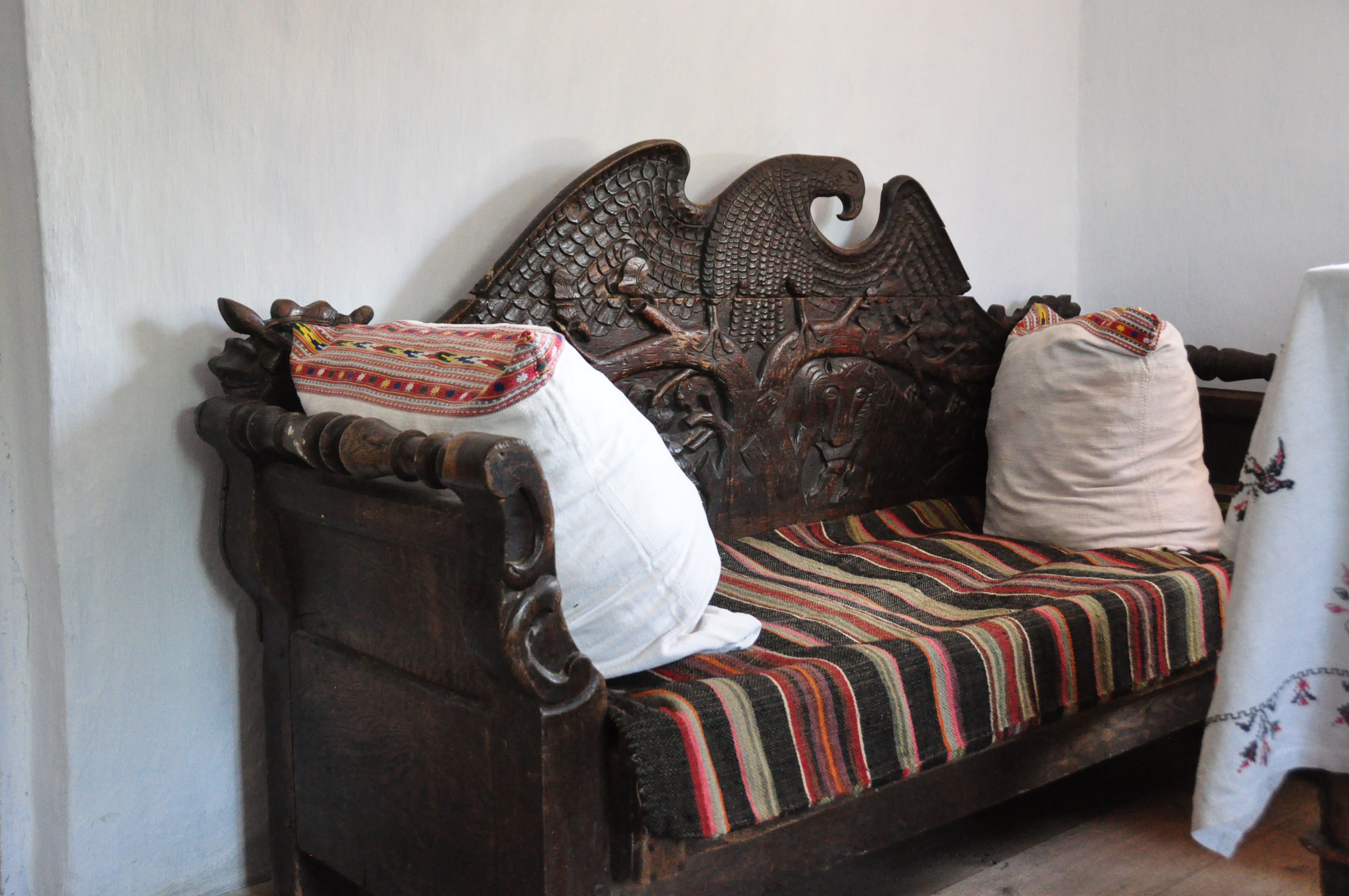 House of parents of Archbishop Slipyj in Zazdrist village Ternopil Oblast. Interior of a room.